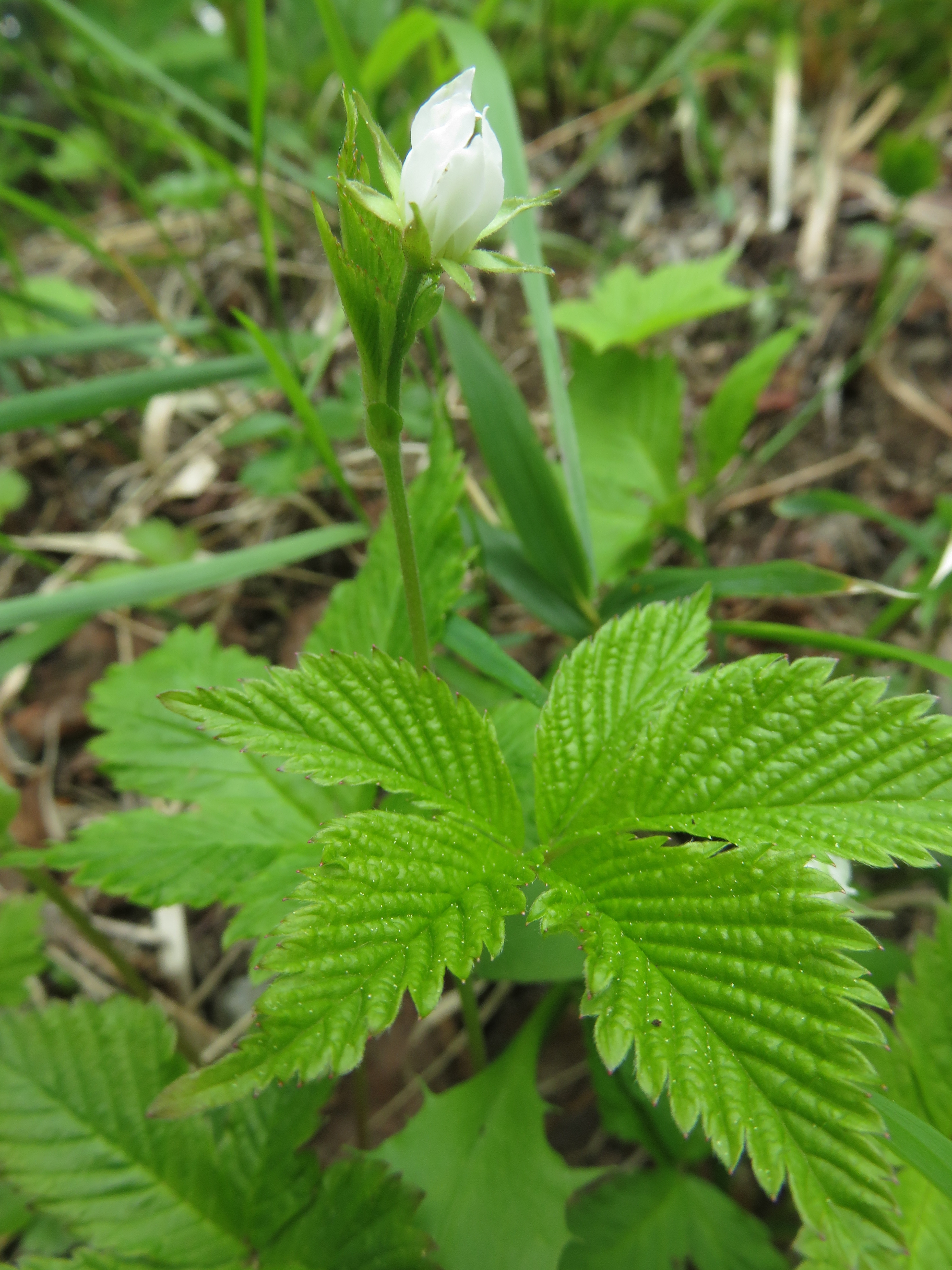 Rubus pseudojaponicus, Mount Hayachine, Iwate pref., Japan